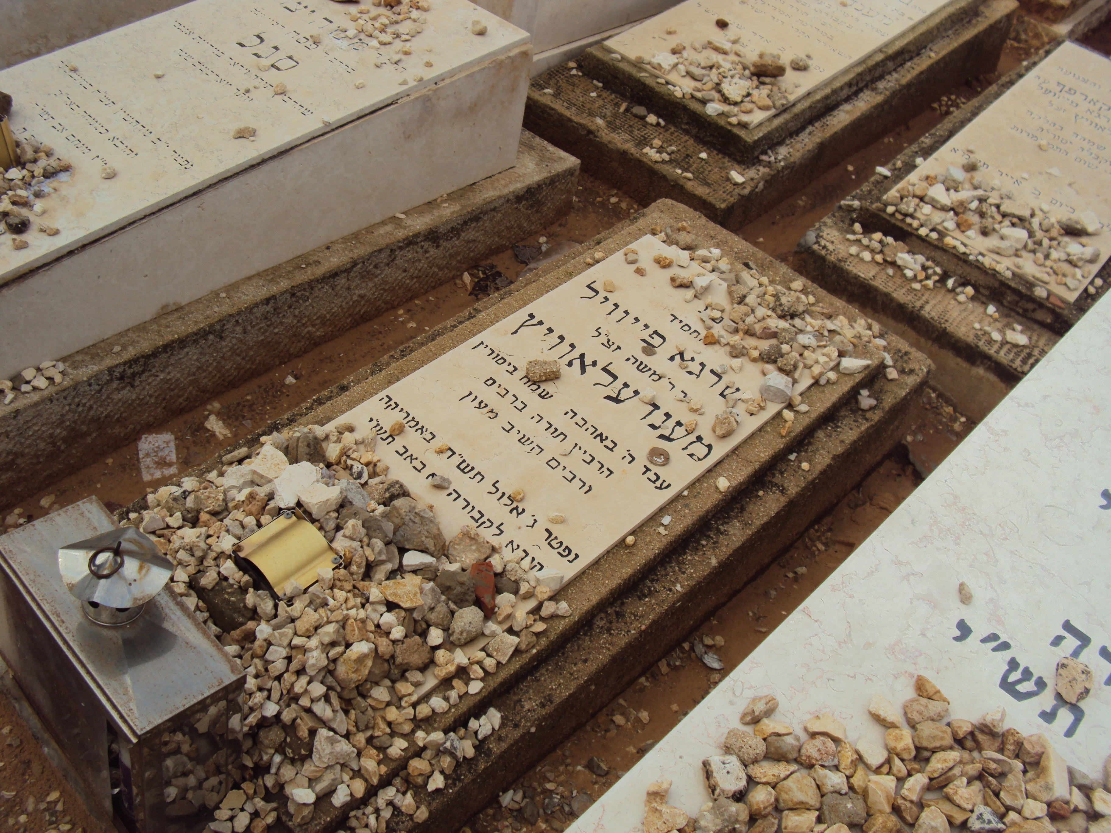 Grave of Rabbi Shraga Feivel Mendlowitz